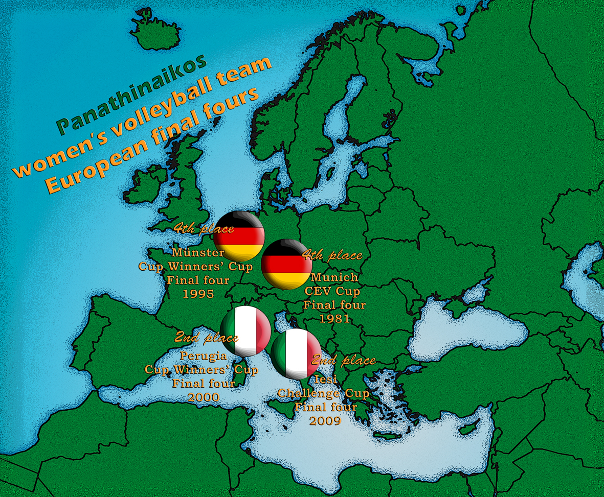 Panathinaikos womens volleyball final4 participations map